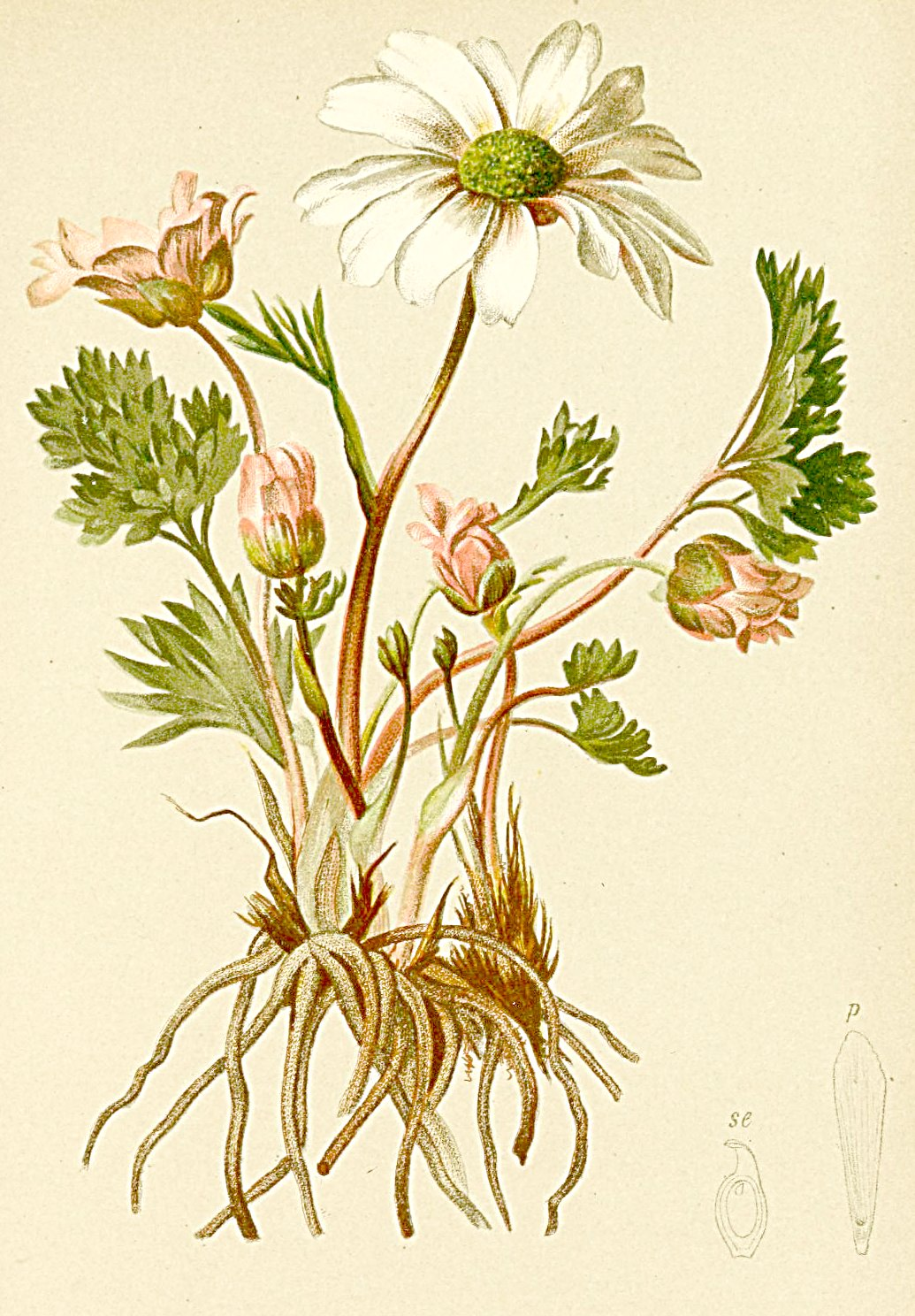 Callianthemum anemonoides (Syn. Ranunculus anemonoides)